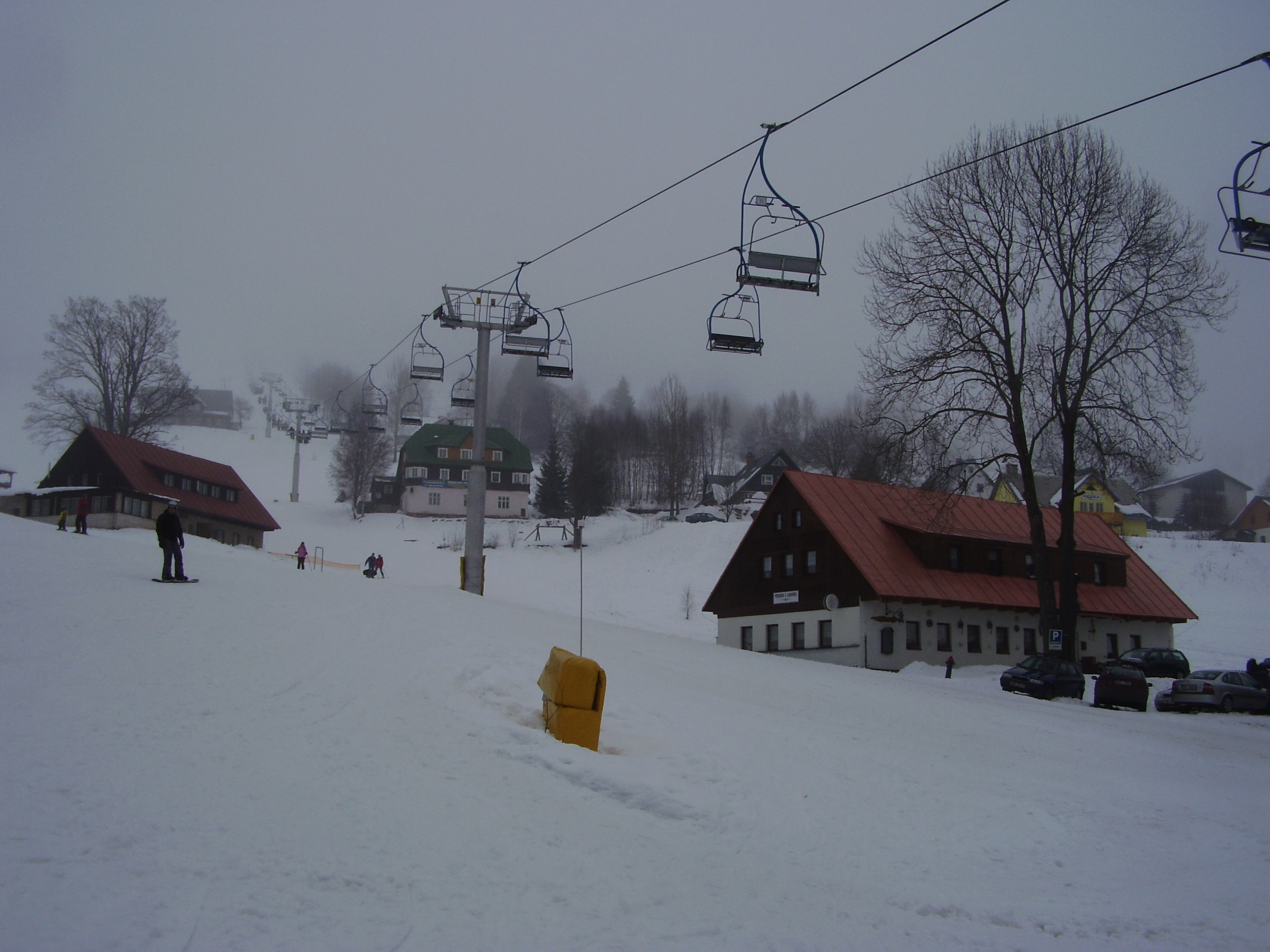 Chairlift Velká Úpa – Portášovy boudy, Velká Úpa, Kronoše